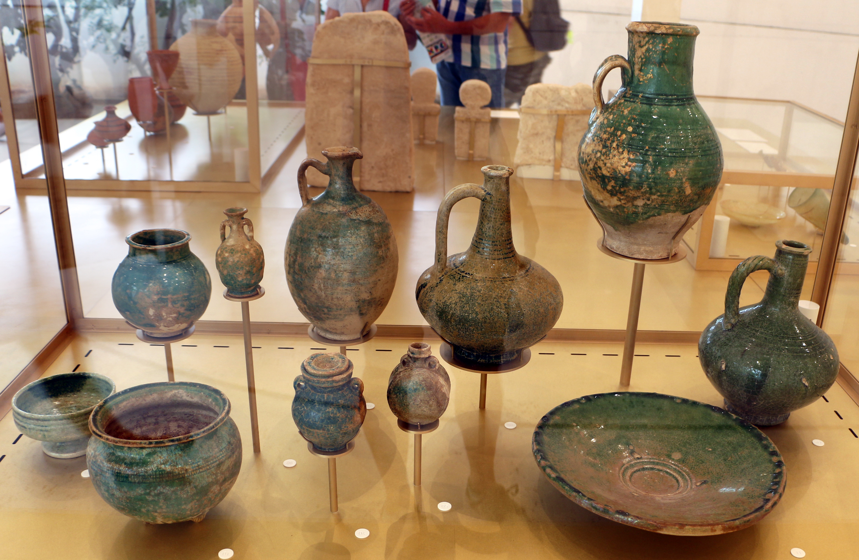 Bahrain pavilion of Expo 2015